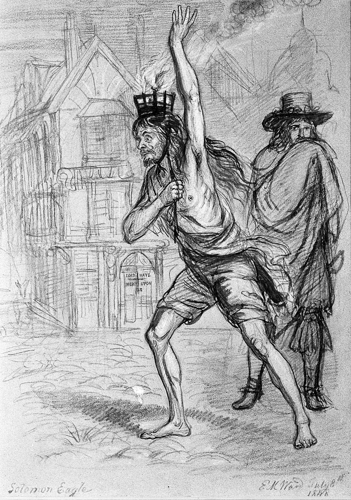 Solomon Eagle (Eccles) striding through plague ridden London with burning coals on his head, trying to fumigate the air. Chalk drawing by E.M. Ward, 1848. Iconographic Collections Keywords: Great Plague; Solomon Eagle; Edward Matthew Ward